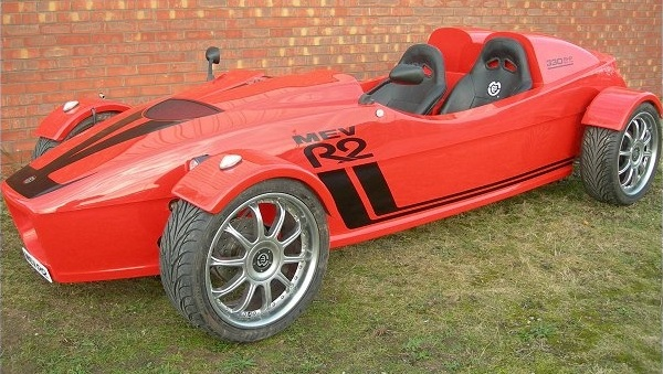 Front three-quarter view of MEV R2 Electric Sports Car